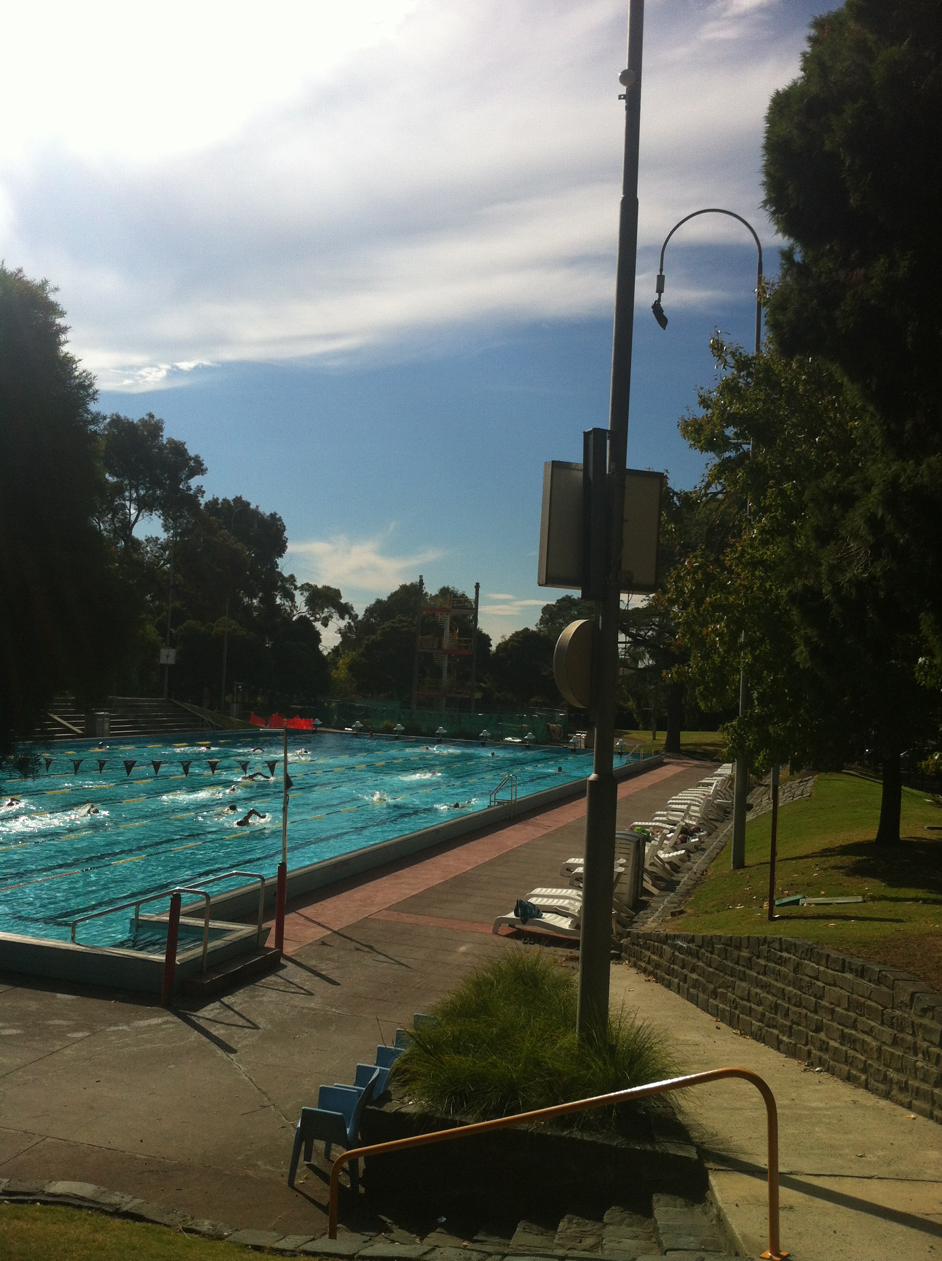 Harold Holt Memorial Swimming Centre